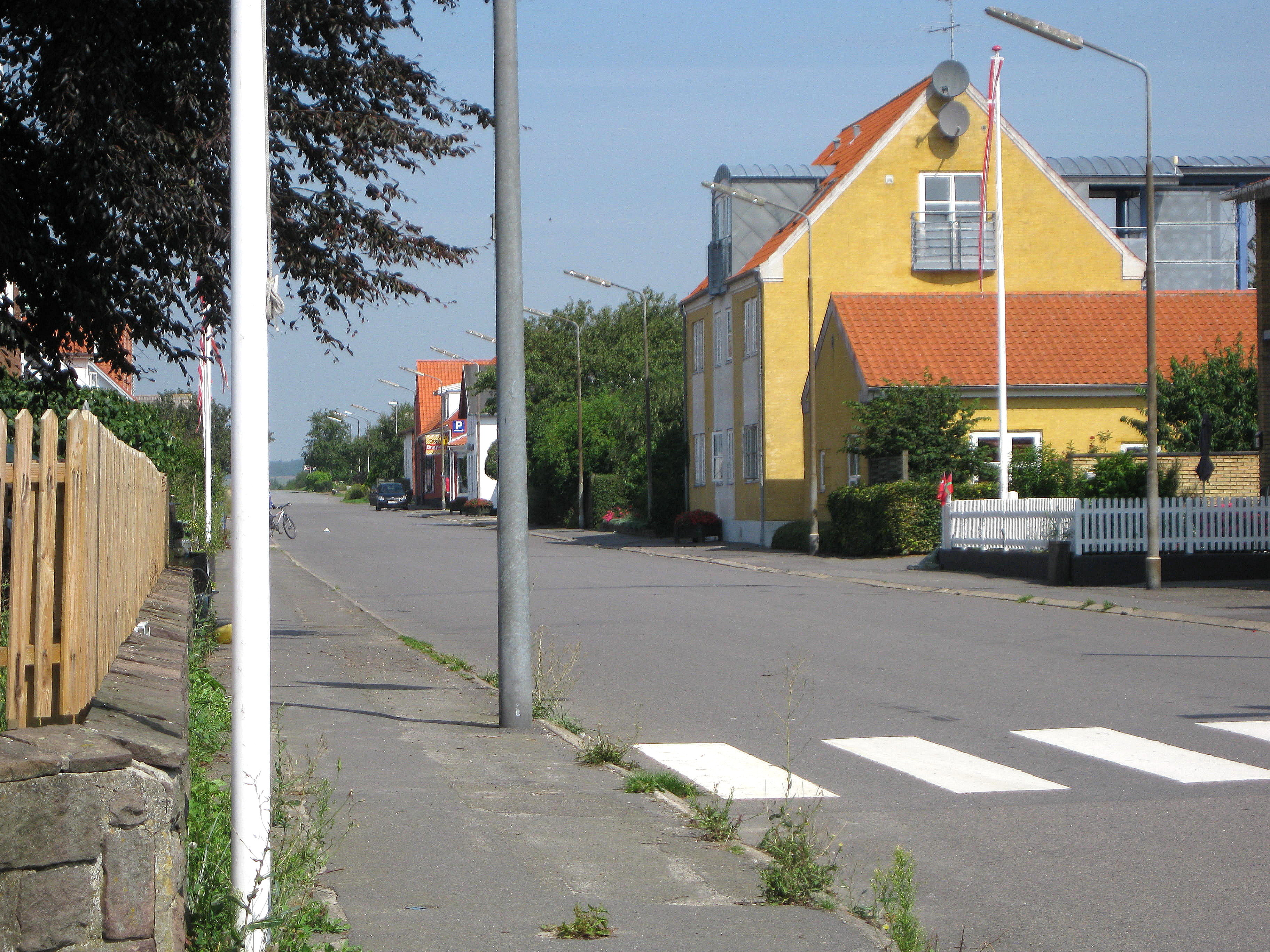 The village "Pedersker" on the southern part of the island Bornholm in east Denmark.